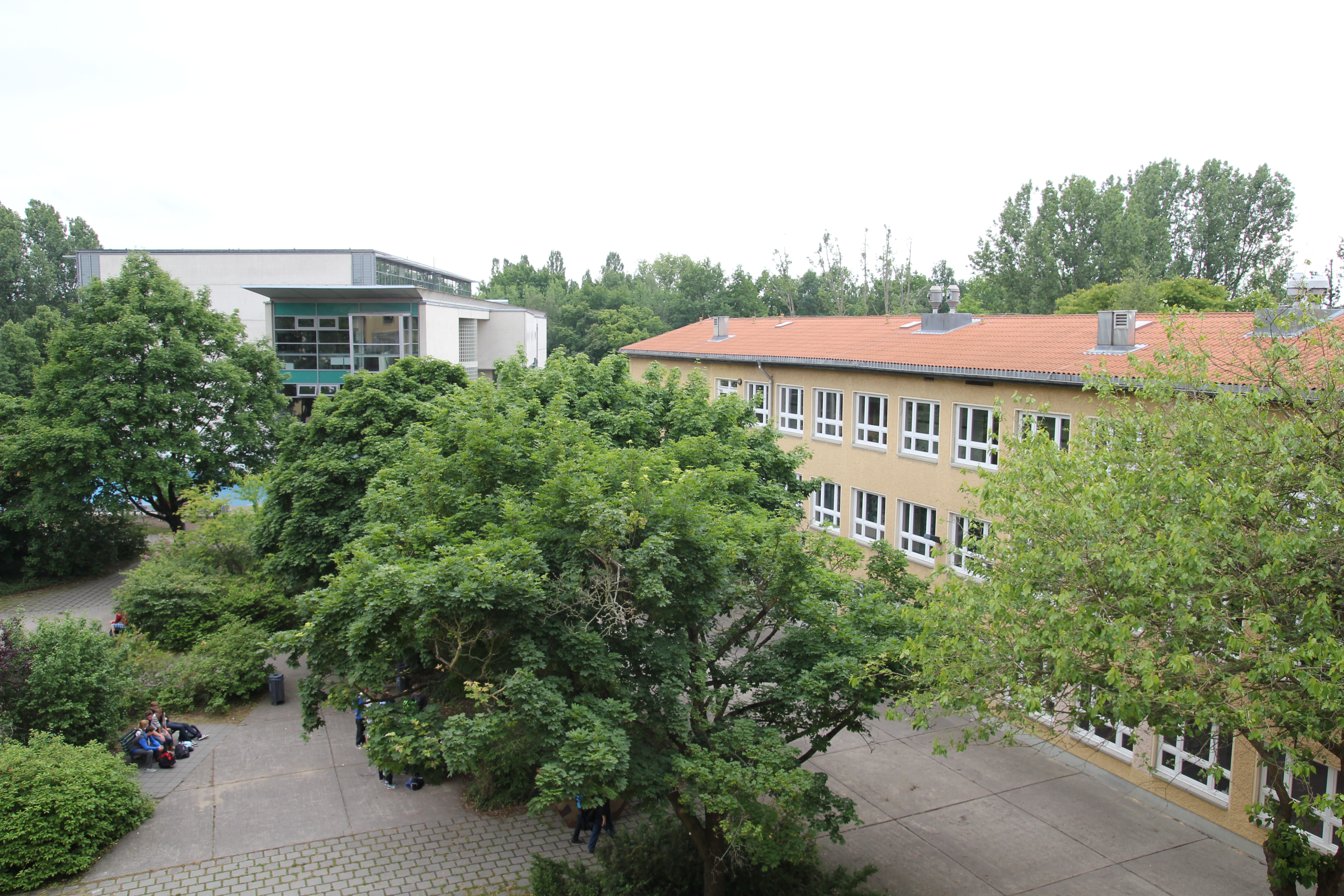 gym and school yard of Archenhold School